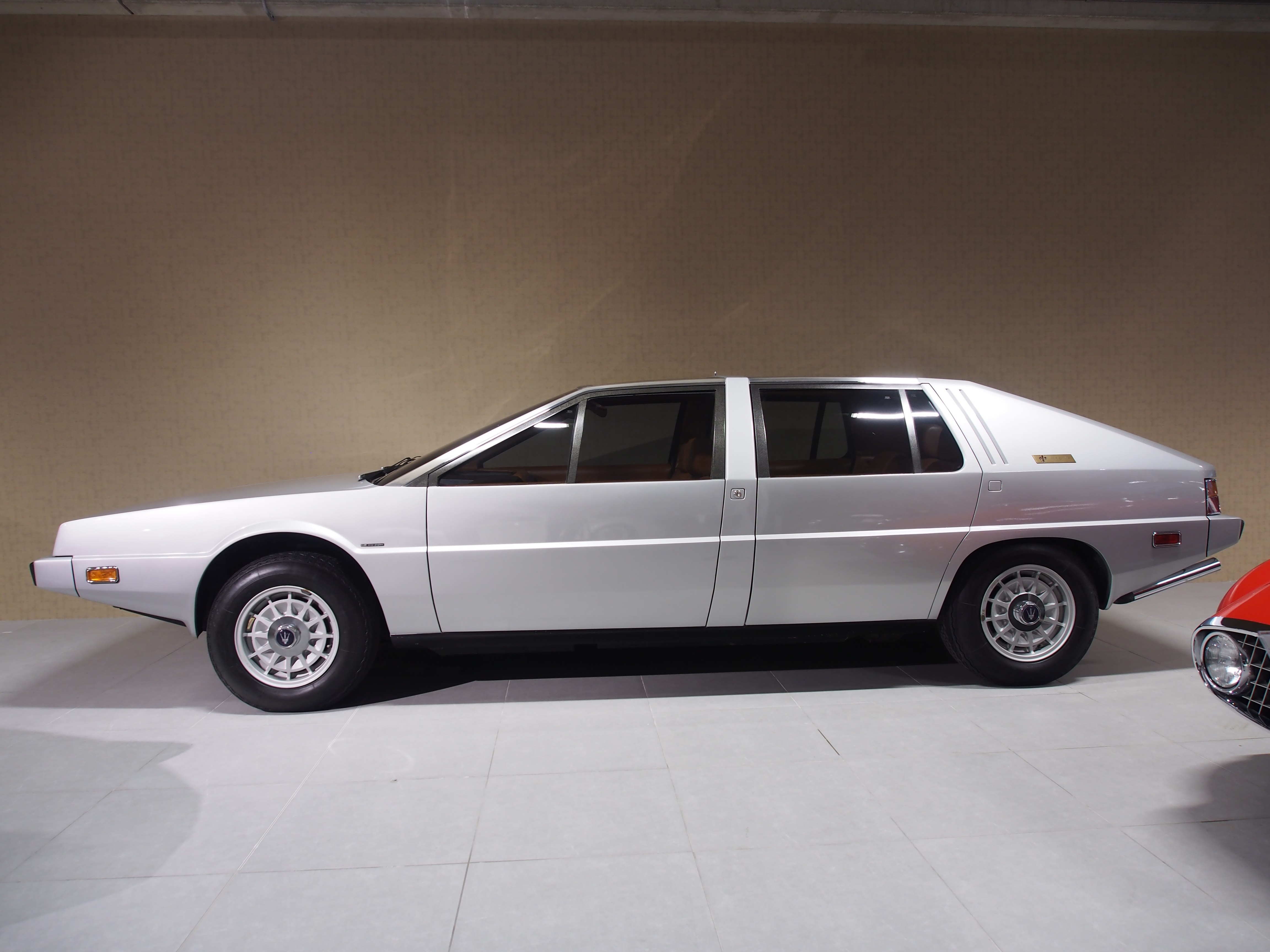 1974 Maserati Medici Show car photographed at the Louwman museum.